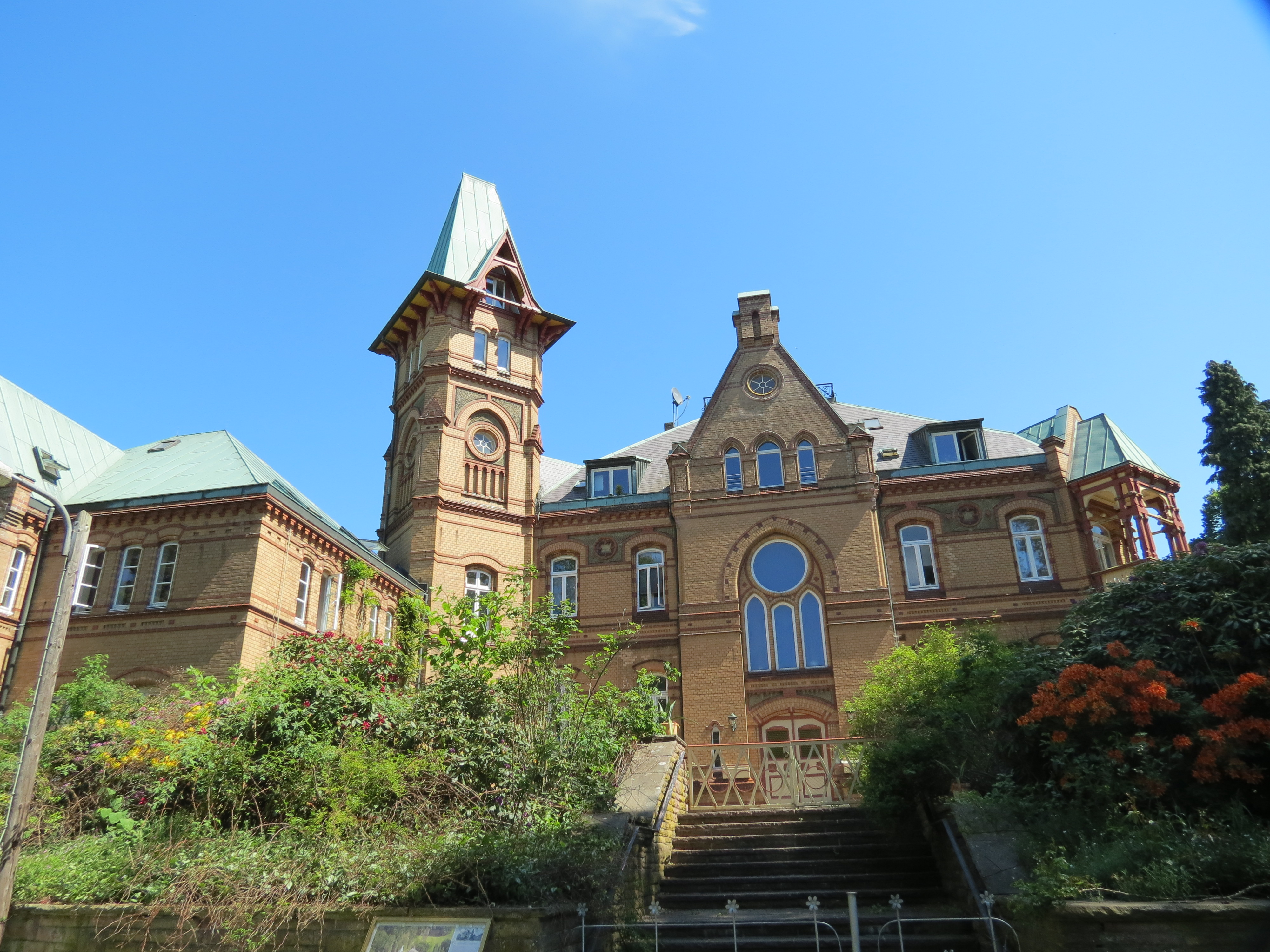 Manor in Seedorf, Lkr. Herzogtum Lauenburg, Schleswig-Holstein, Germany